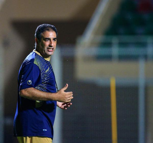 Hicham Jadrane in a training session with Nahda on 12 September 2015 12 September 2015 Al Buraimi Complex Photographer email id